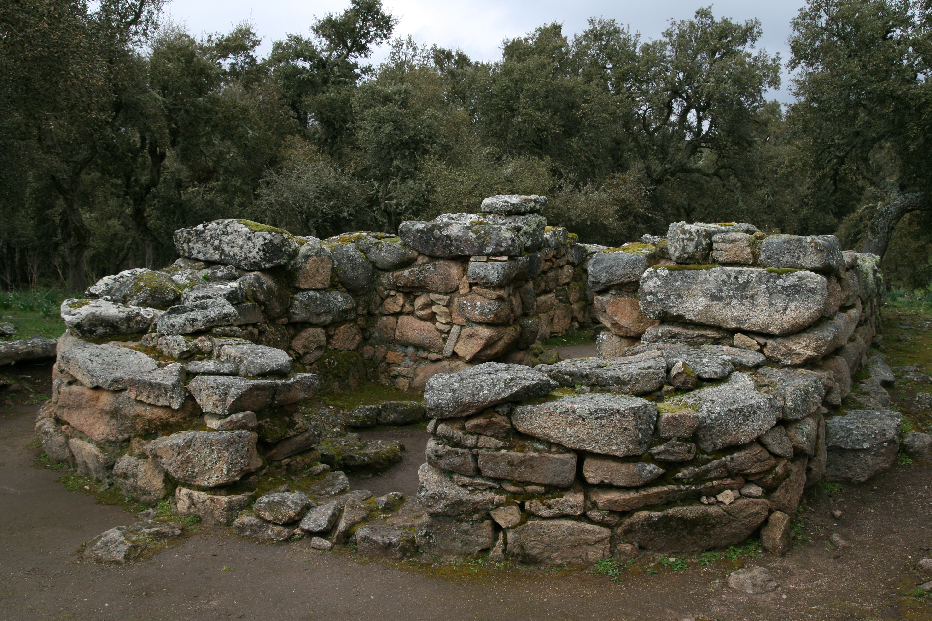 Nuraghi Meragon Temple at the site of Romanzesu, Sardinia